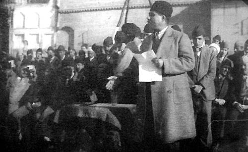 Ma’ruf al-Rusafi at ceremony to lay the foundation stone to a new school in Baghdad in 1929.